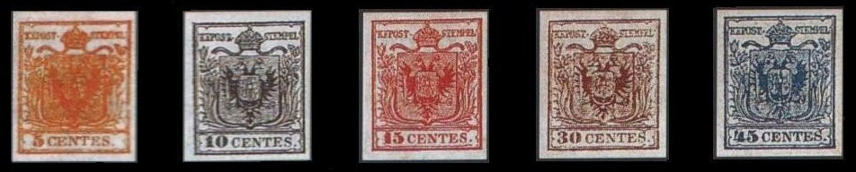 My photo of a serie of stamps circulating in Lombardo-Venetian Kingdom